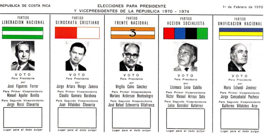 Papeleta presidencial de 1970